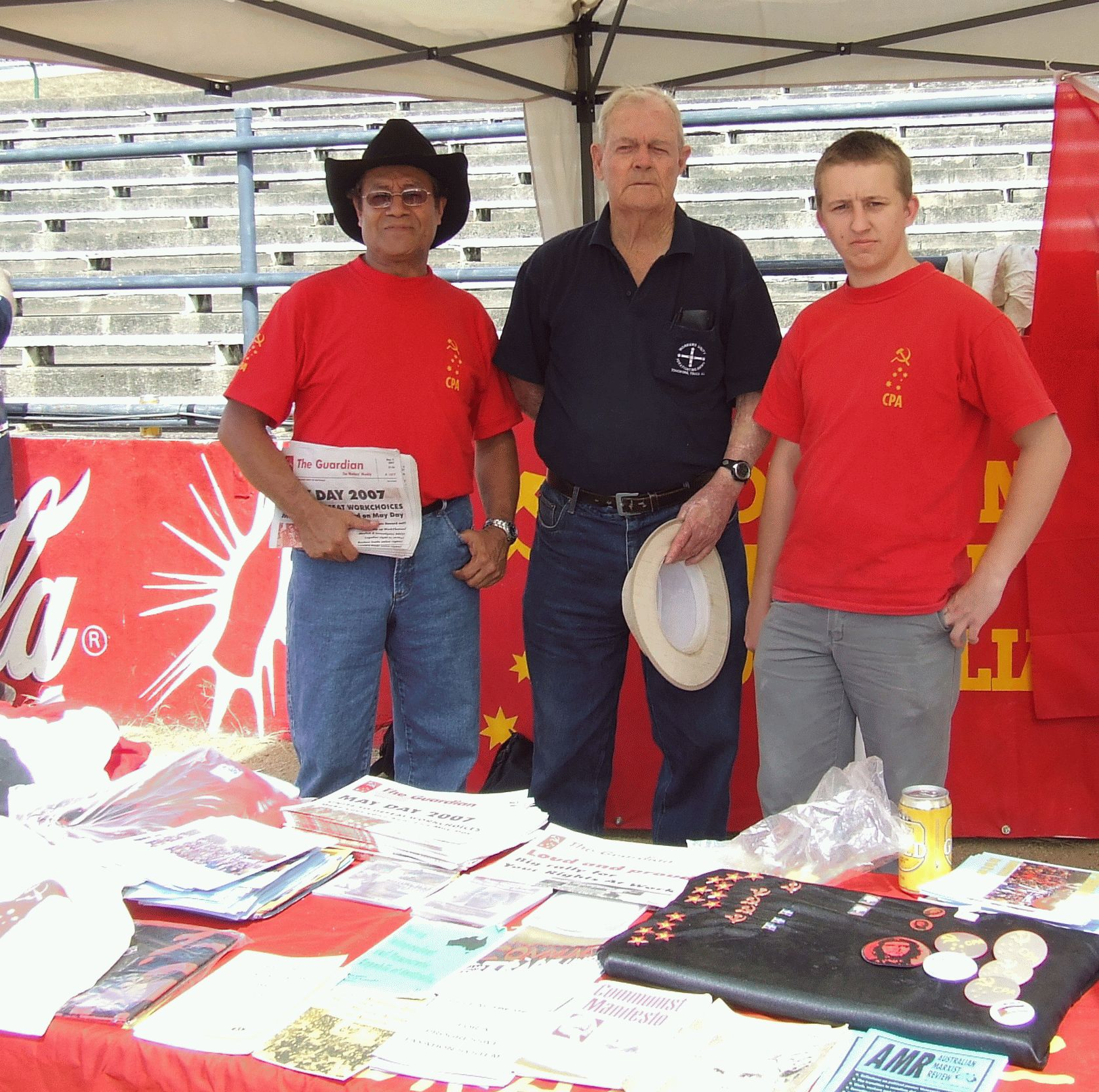 A Communist Party of Australia stall at Labour Day 2007 in Queensland